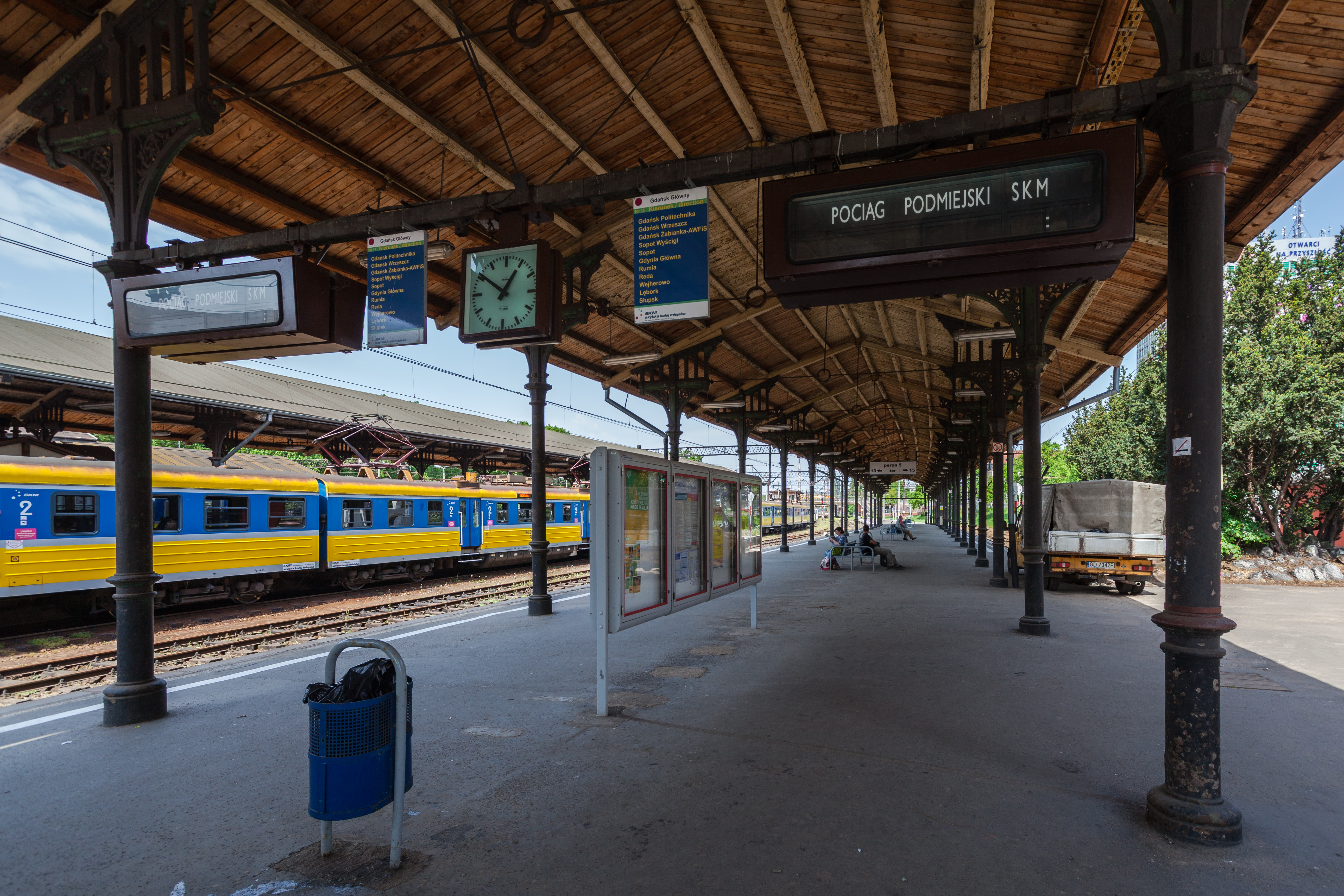 Central Railway Station, Gdansk, Poland